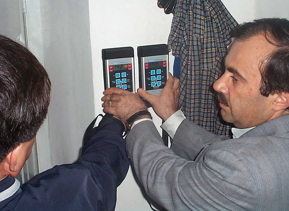 Two RADOS RDS-110 survey meters show extraordinary dose rates of 142 and 143 µSv/h on contact with a bedroom wall in Ramsar, Iran.